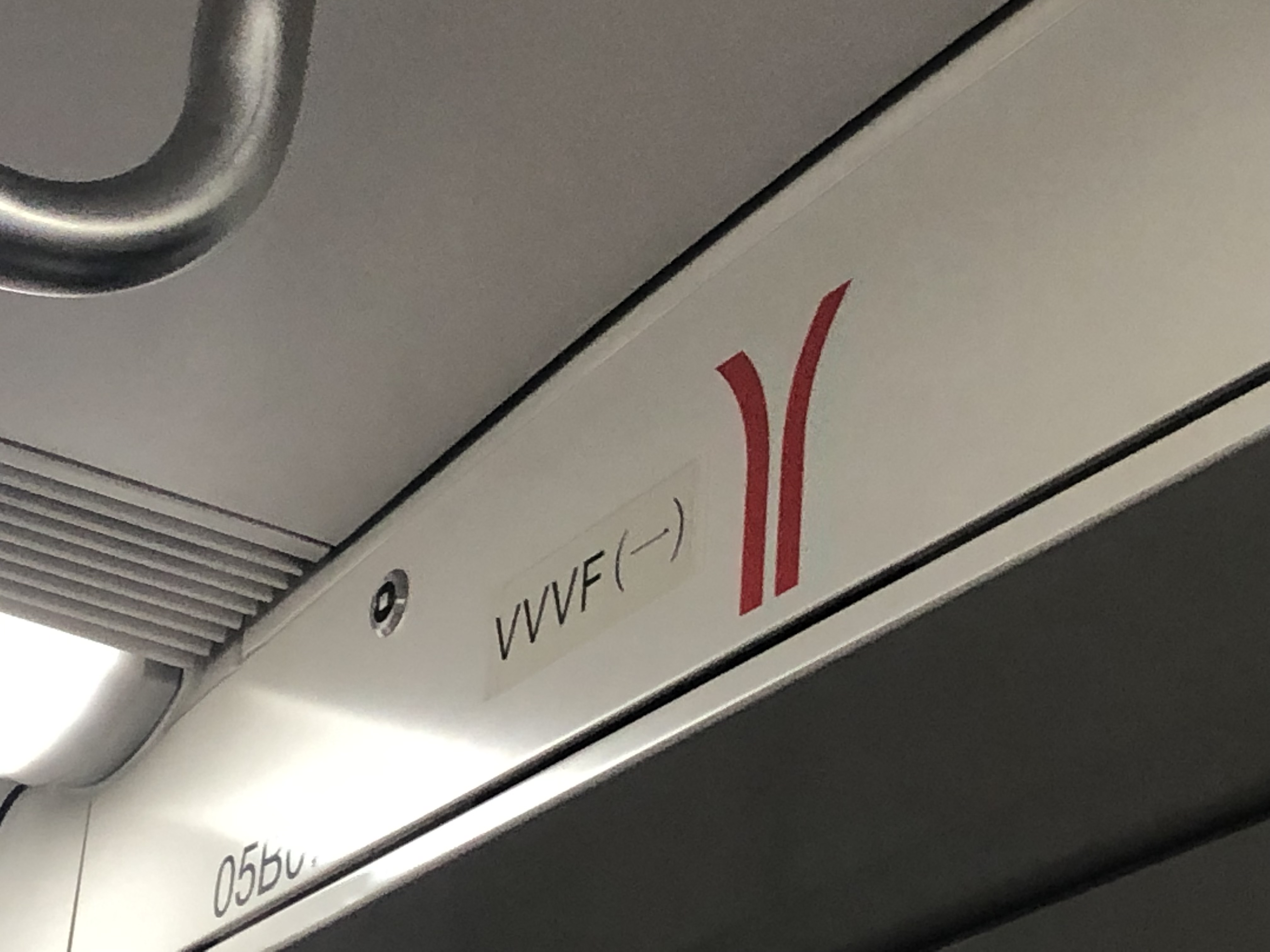 VVVF on Guangzhou metro